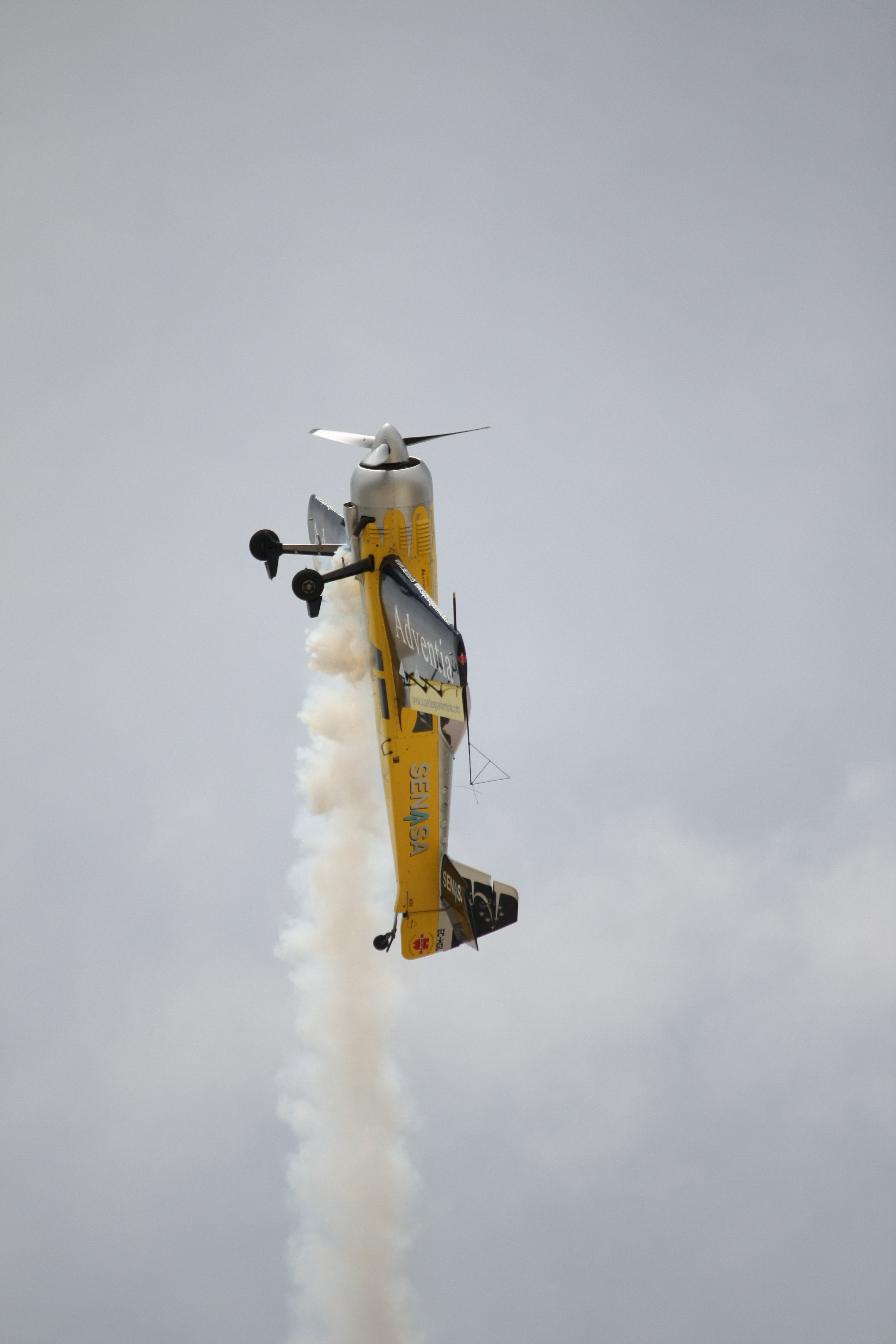 Ramón Alonso in his Sukhoi Su-31 in Cuatro Vientos, Madrid, Spain.